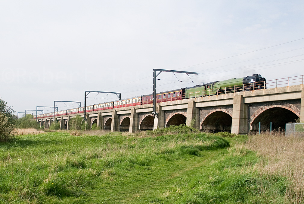 Brand new steam locomotive 60163 Tornado hauls a charter train from London Kings Cross to Edinburgh Waverley on 25 April 2009. The private trip was filmed by the BBC for the Top Gear Race to the North, with James May a.k.a Captain Slow in a vintage Jaguar and Richard Hammond on a classic motorbike, racing Jeremy Clarkson on the train, but with the car and bike only allowed to use A roads. Tornado was booked to leave London at 07.25 BST and arrive in Edinburgh at 15.27 BST. Booked times The train carried the headboard for a Cathedrals Express journey, and barring the maroon support coach at the front, was formed from a uniform rake of nine Royal Scot blood and custard coaches. Seen here crossing Bawtry viaduct, South Yorkshire